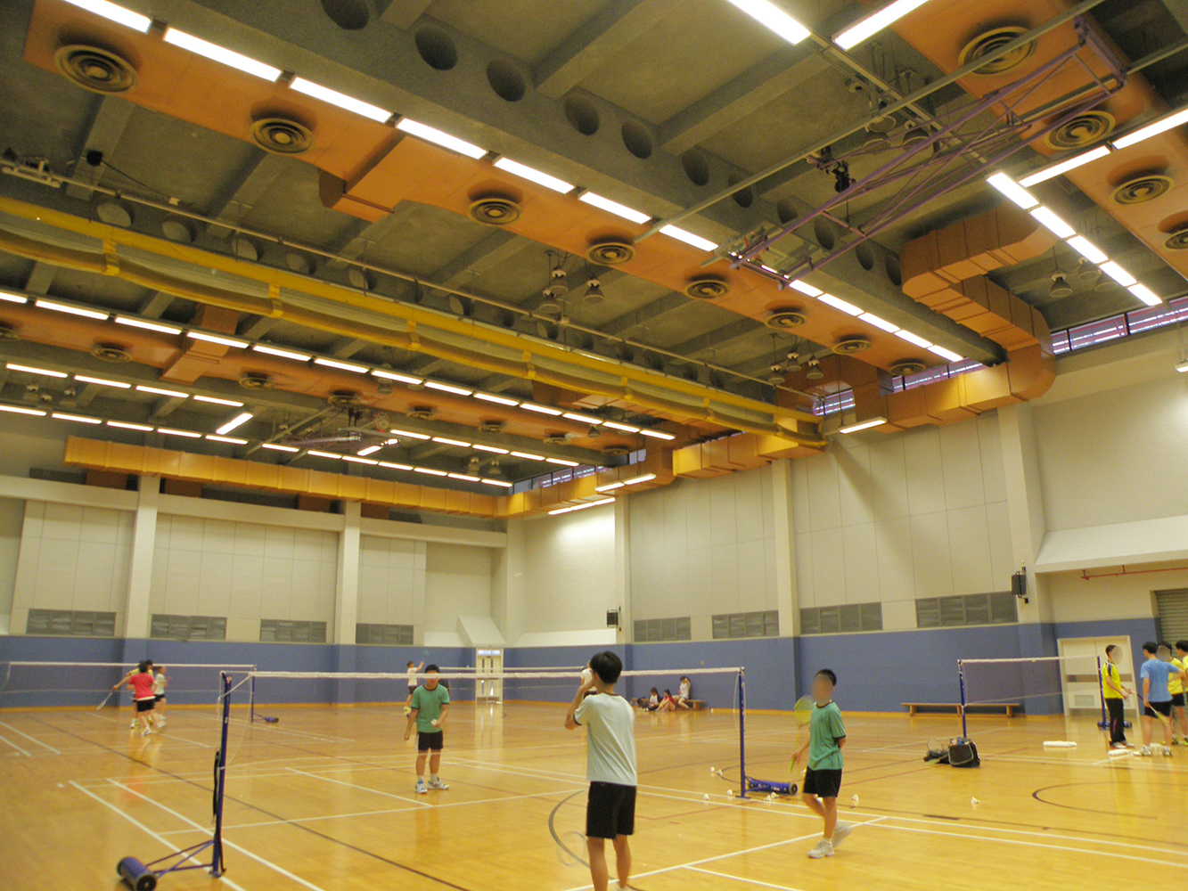 Fu Heng Sports Centre in Tai Po, Hong Kong.